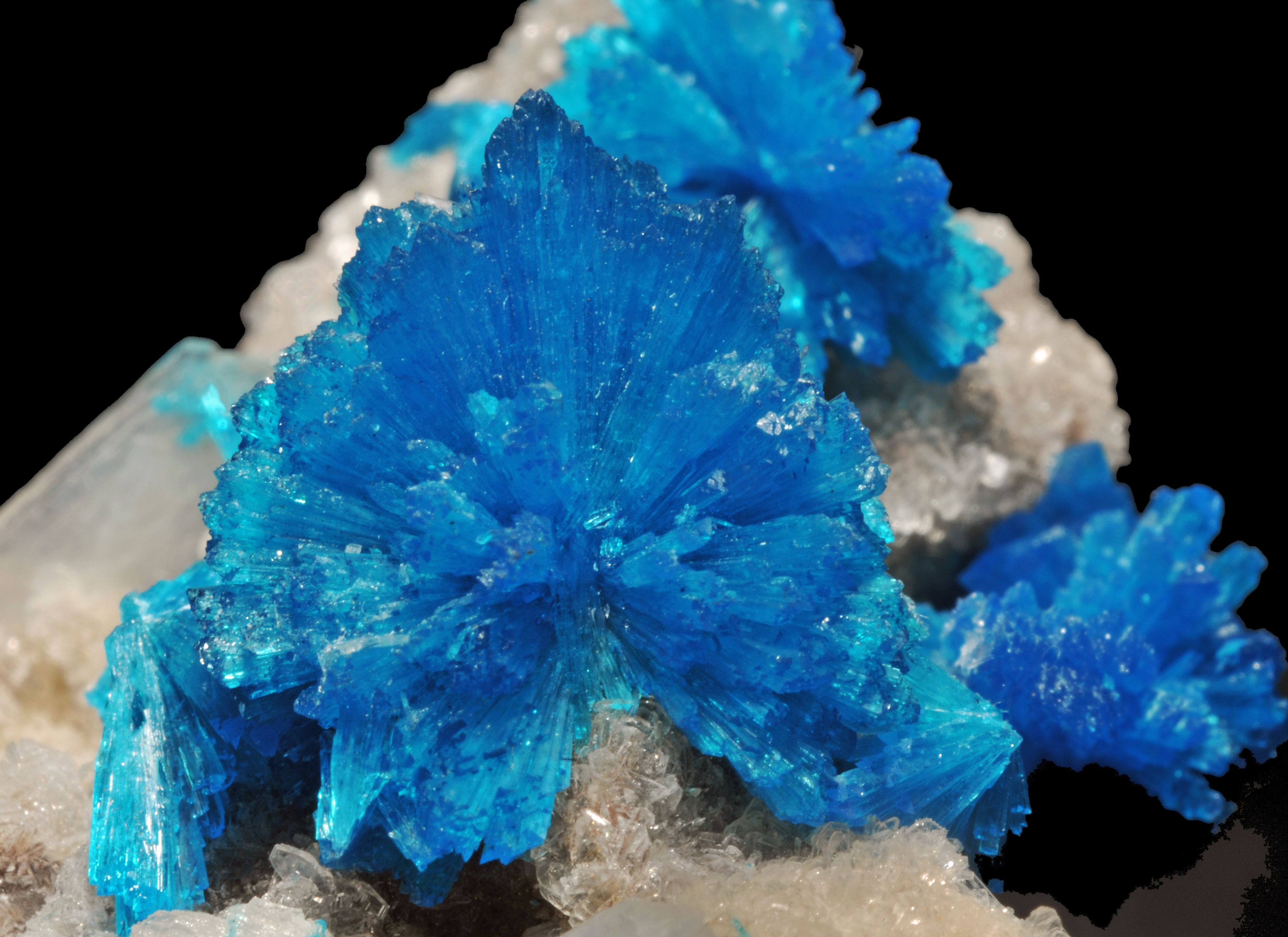 crystals of cavansite, crystals of stilbite : Wagholi, Ahmadnagar (Ahmed Nagar ; Ahmednagar), Pune District (Poonah District), Maharashtra, India